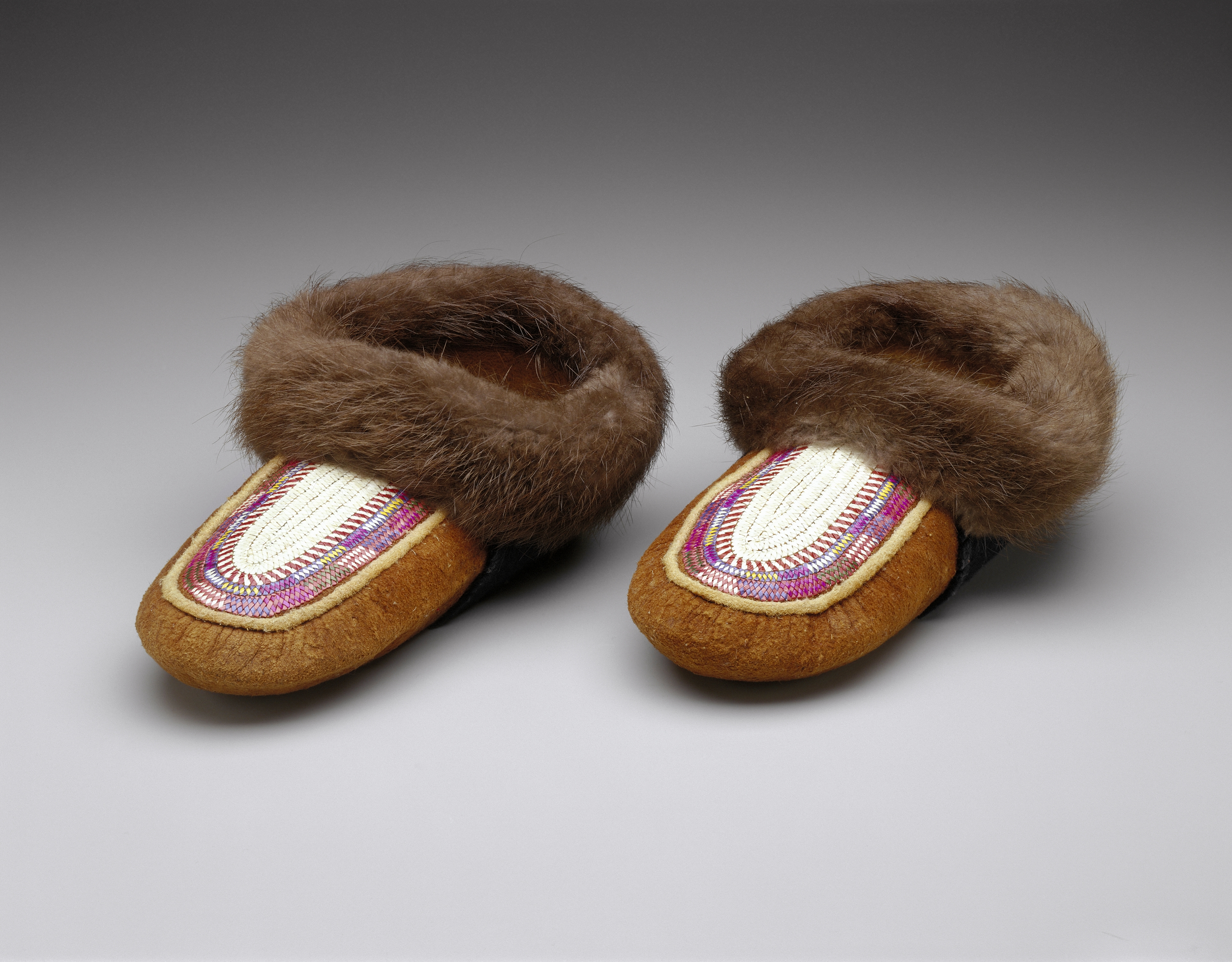 Sarah Hardisty, Dene (Canada, North America), born 1923; Moccasins; 20th century; Moose hide, porcupine quill, beaver hide, wool, thread; 3 1/2 x 6 1/4 x 10 in. (8.89 x 15.88 x 25.4 cm) (each); Minneapolis Institute of Art; The Dolly J. Fiterman Fund 98.13a,b